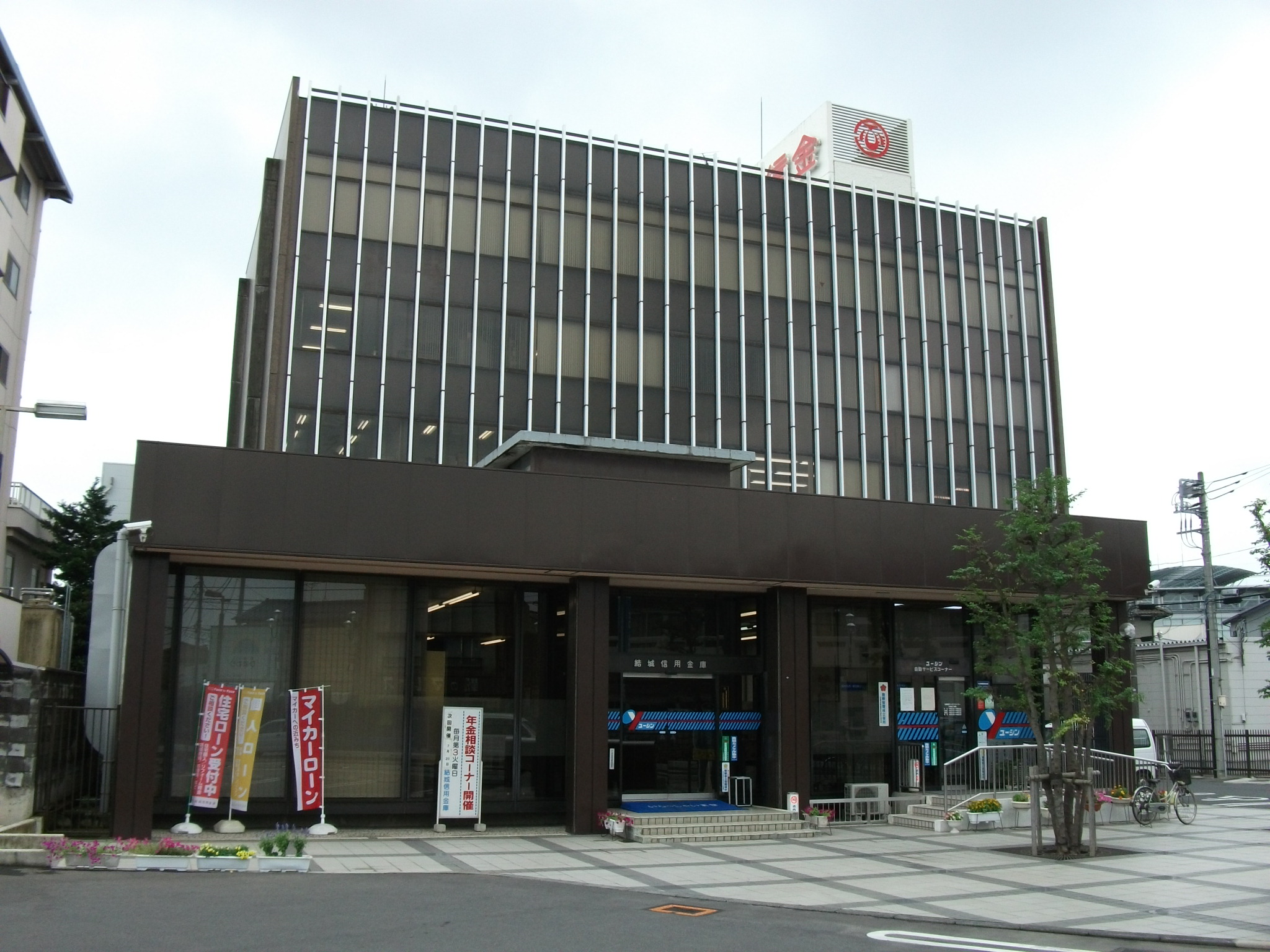 Yūki Shinkinbank headoffice (Ibaraki, Japan)